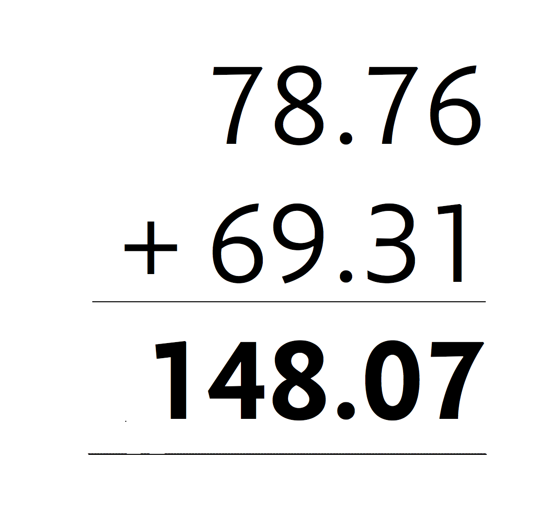 Intended for professional documents, the typeface Concourse duplexes regular and bold weights of numbers, i.e., characters in bold and in a lighter weight have the same widths.